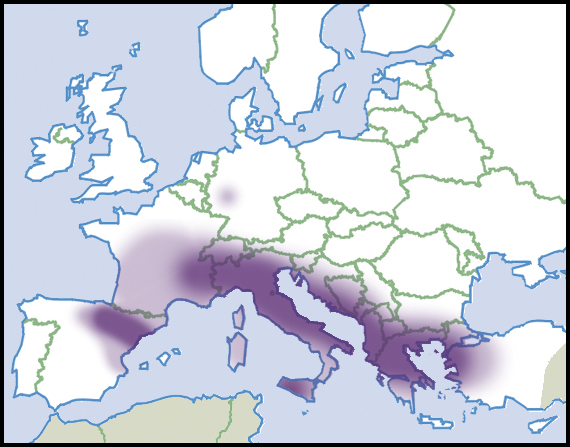 Unio mancus Lamarck, 1819. Distribution in Europe, scientific state of knowledge of 2012. Source description in English. Light colour indicated rare occurrences or regions where the species could eventually be expected to occur. Dark colour indicated relatively reliable occurrences, as well as regions where the species was expected to occur, and where the species was not known to be extremely rare. Dark colour indications were not necessarily based on published records. Species summary in AnimalBase